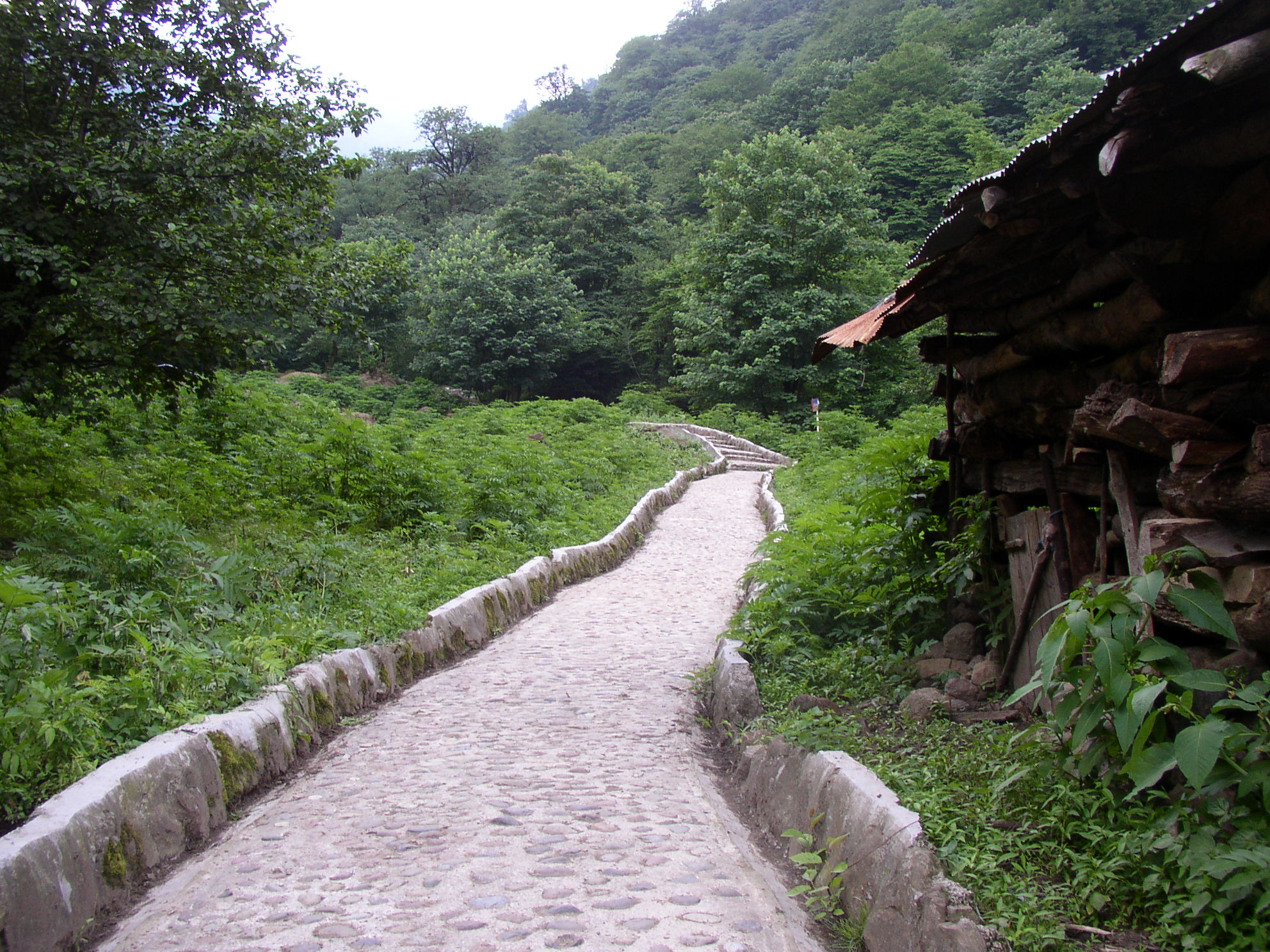 The road to the Rudkhan Castle, Gilan, Iran.